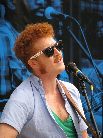 The Spring Standards playing at Center Plaza in Baltimore, MD, August 24, 2011.